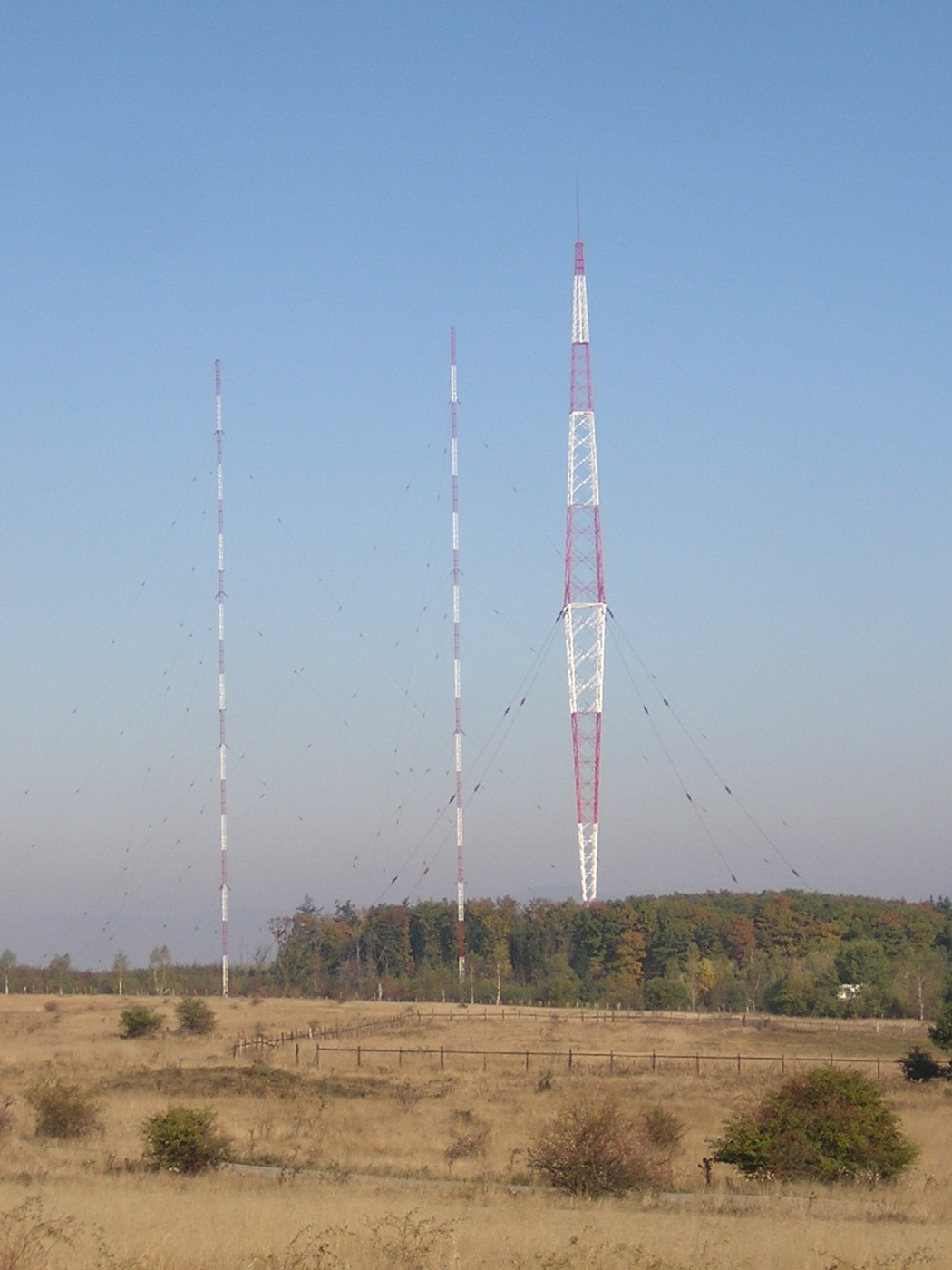 Blaw-Knox tower of the Vakarel transmitter complex.